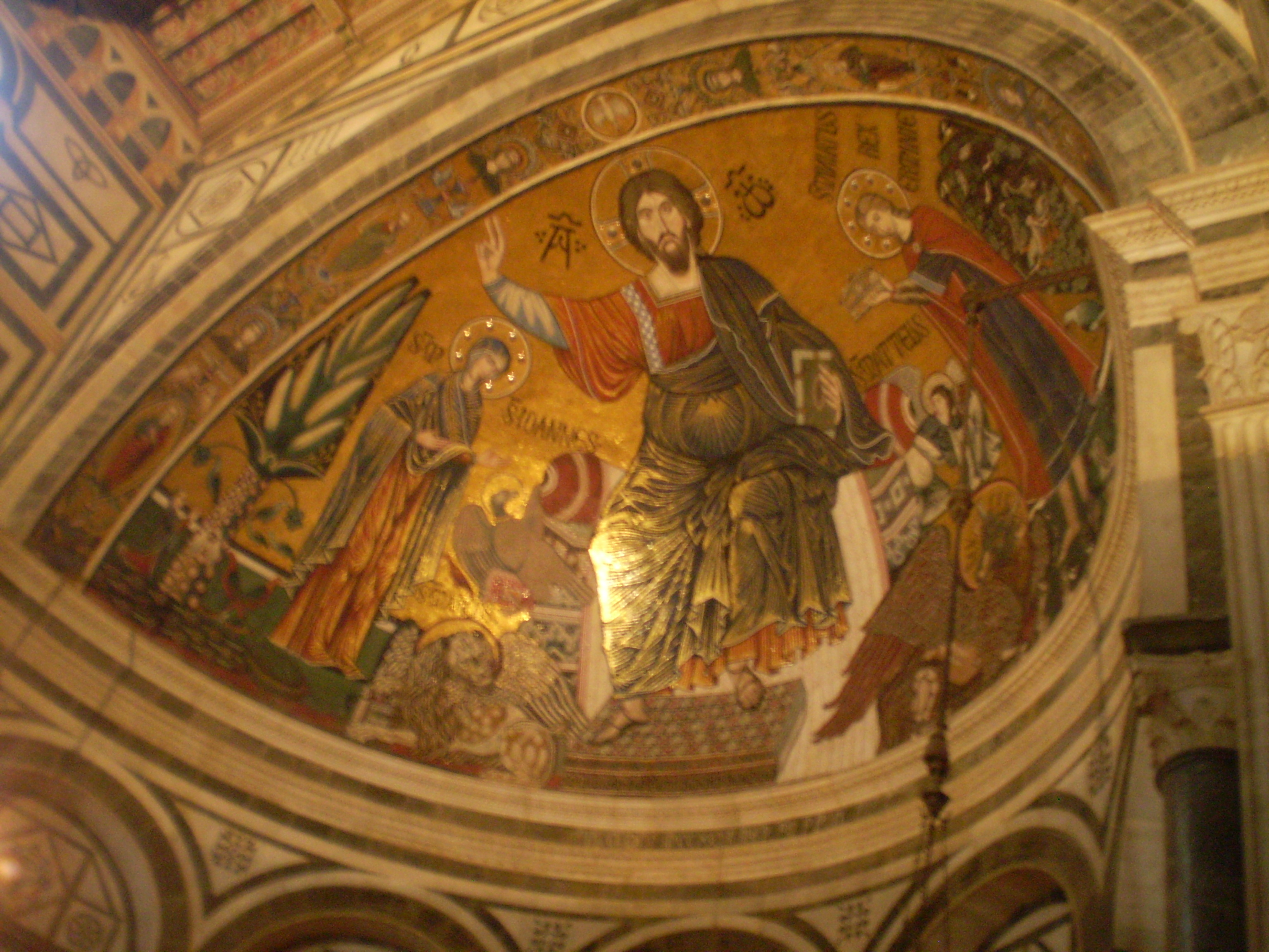 Photo taken by Eupator.